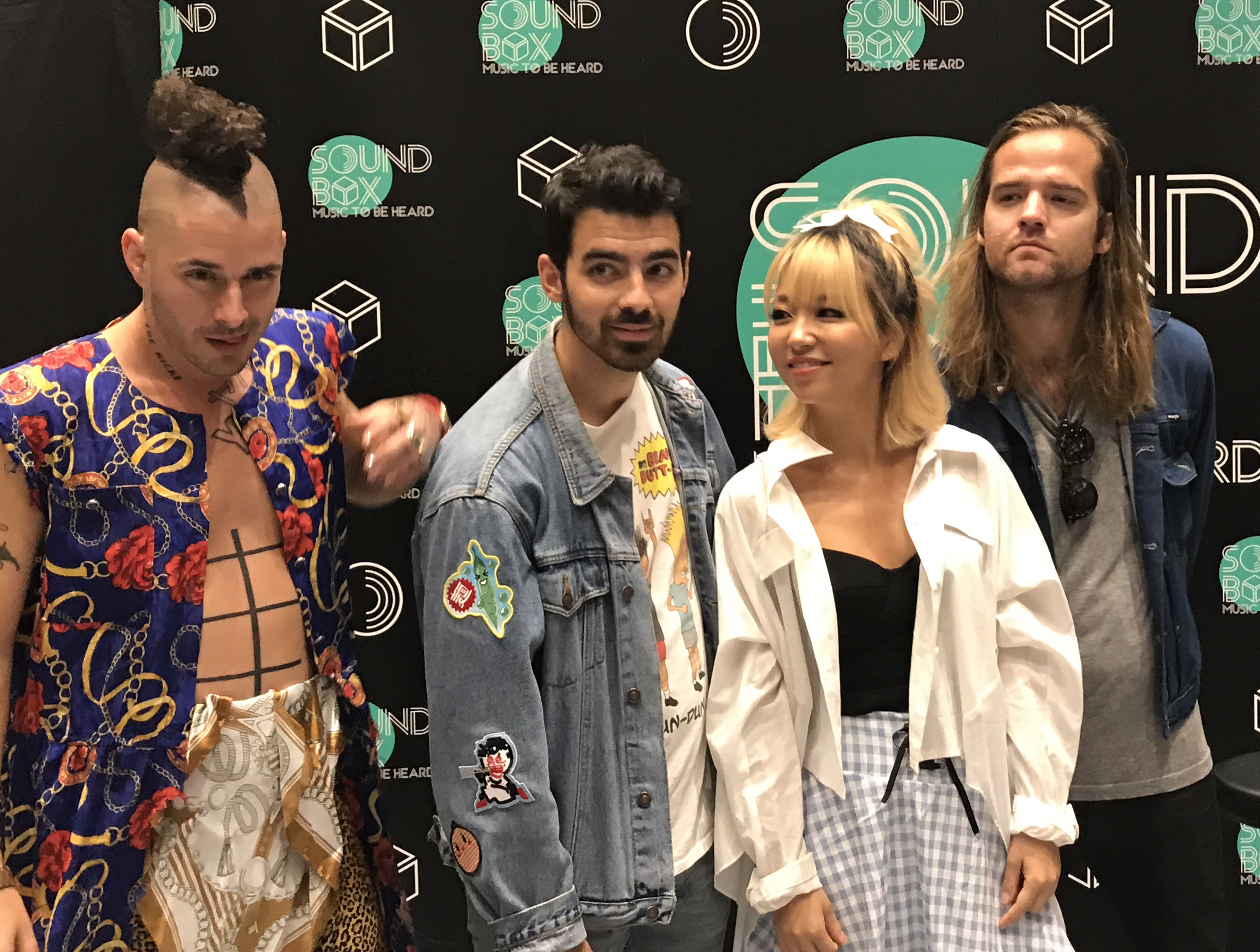 DNCE at Soundbox, Bangkok.